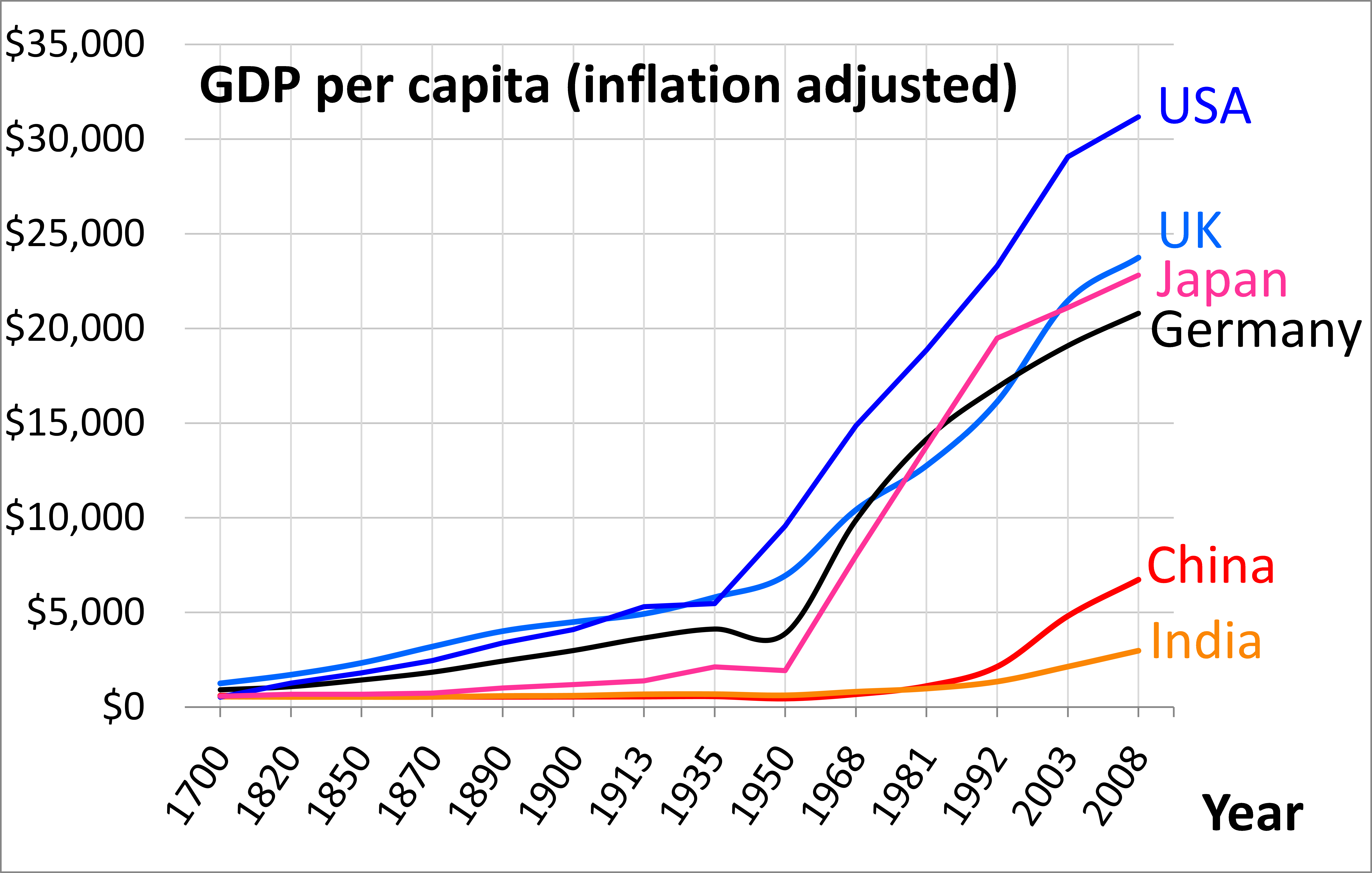 This map shows the changes in per capita GDP of China, Germany, India, Japan, United Kingdom and United States of America over 308 years, that is from 1700 AD to 2008 AD. All GDP numbers are inflation adjusted to 1990 International Geary-Khamis dollars. Data Source: Tables of the late British Economist Angus Maddison (2010). The per capita GDP over various years and population data can be downloaded in a spreadsheet from here. The per capita GDP data in this chart is also available in hardcopy version here: Maddison A (2007), Contours of the World Economy I-2030AD, Oxford University Press, ISBN 978-0199227204